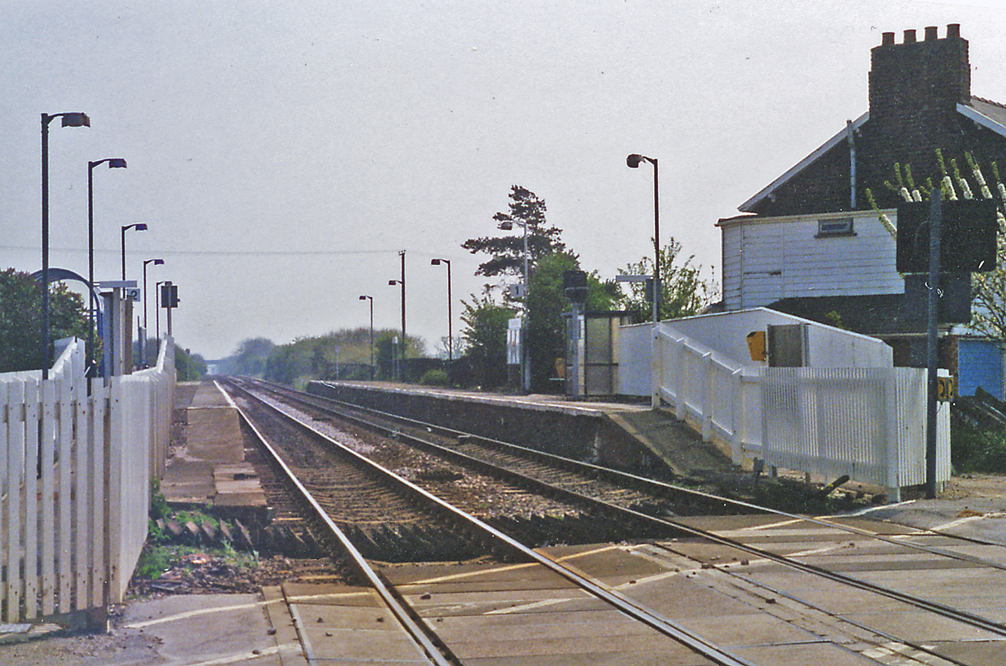 Eastrington station, 1995, Eastrington, East Riding of Yorkshire, England. View eastwards, towards Hull: ex-NER Leeds - Selby - Hull main line; named 'South Eastrington' until 12/6/61.